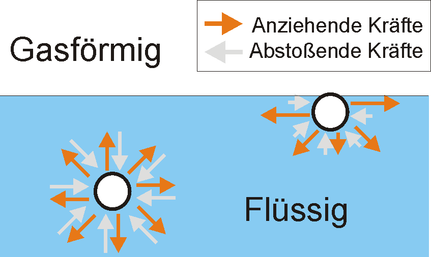 Depicition of molecules in a liquid at the surface and in the bulk.